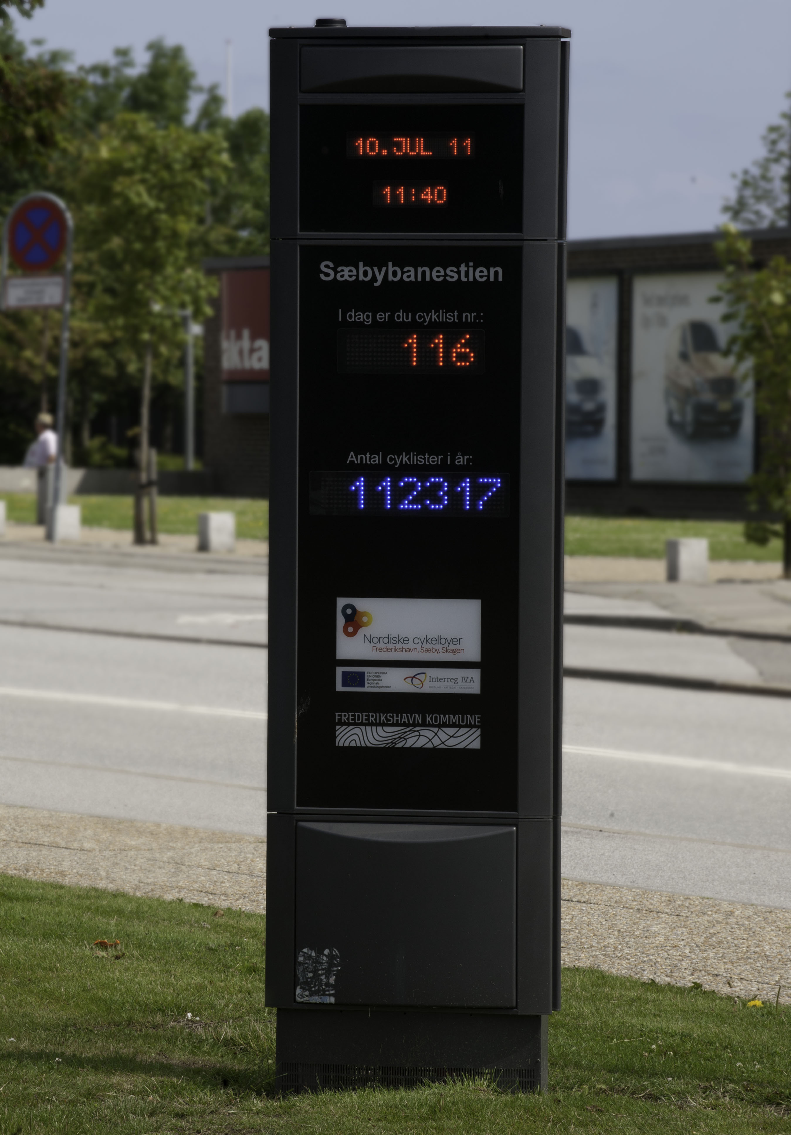 Bicycle counter in Frederikshavn